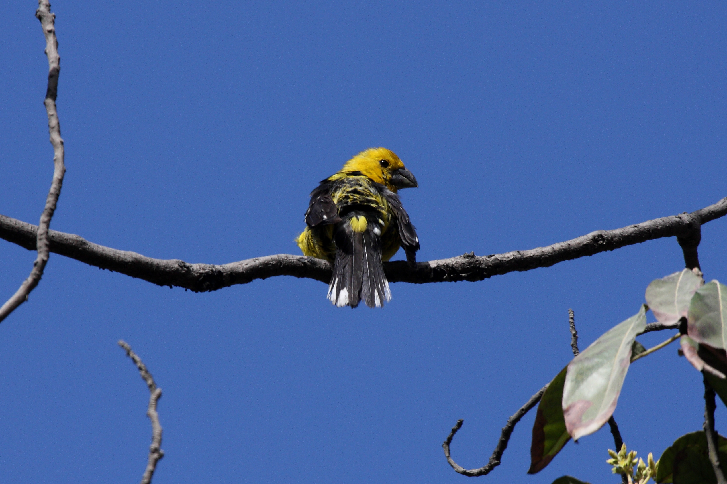 Golden-bellied Grosbeak (Pheucticus chrysogaster)